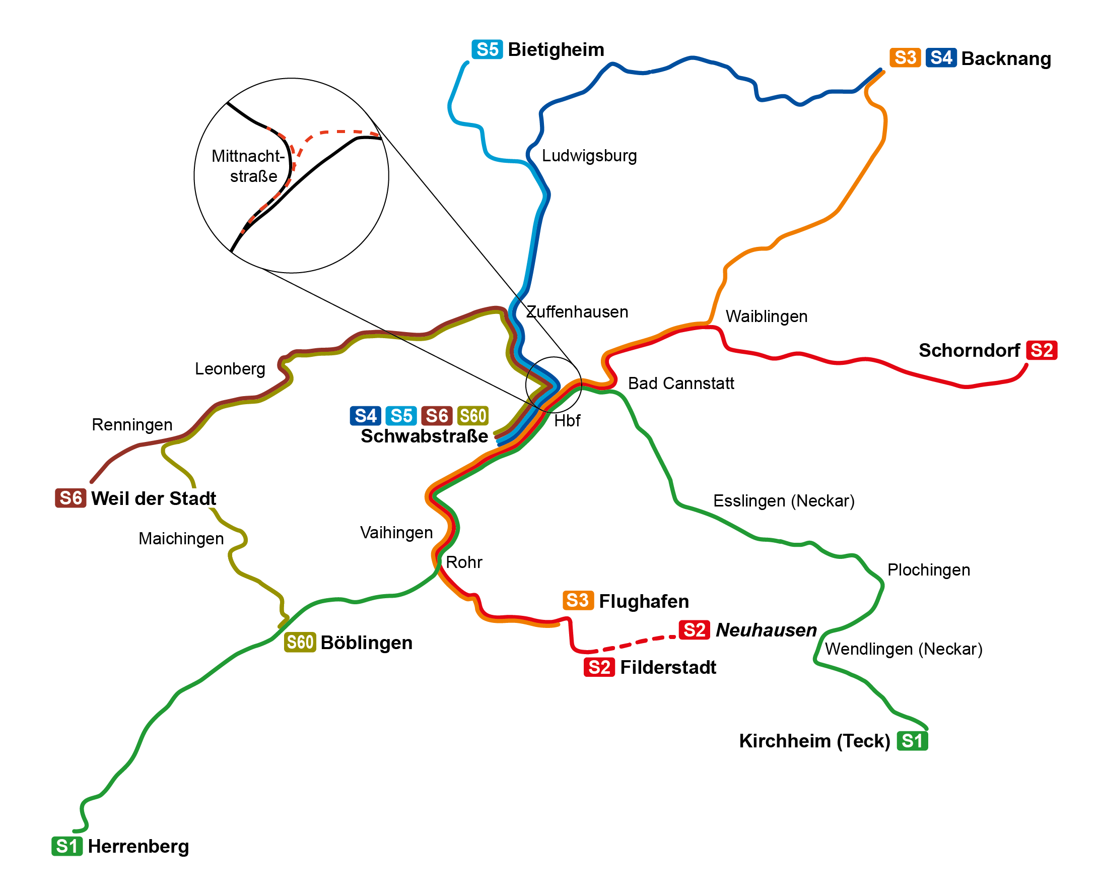 Stuttgart S-Bahn network as of April 2013. Extensions that are to be built are marked with a dashed line.